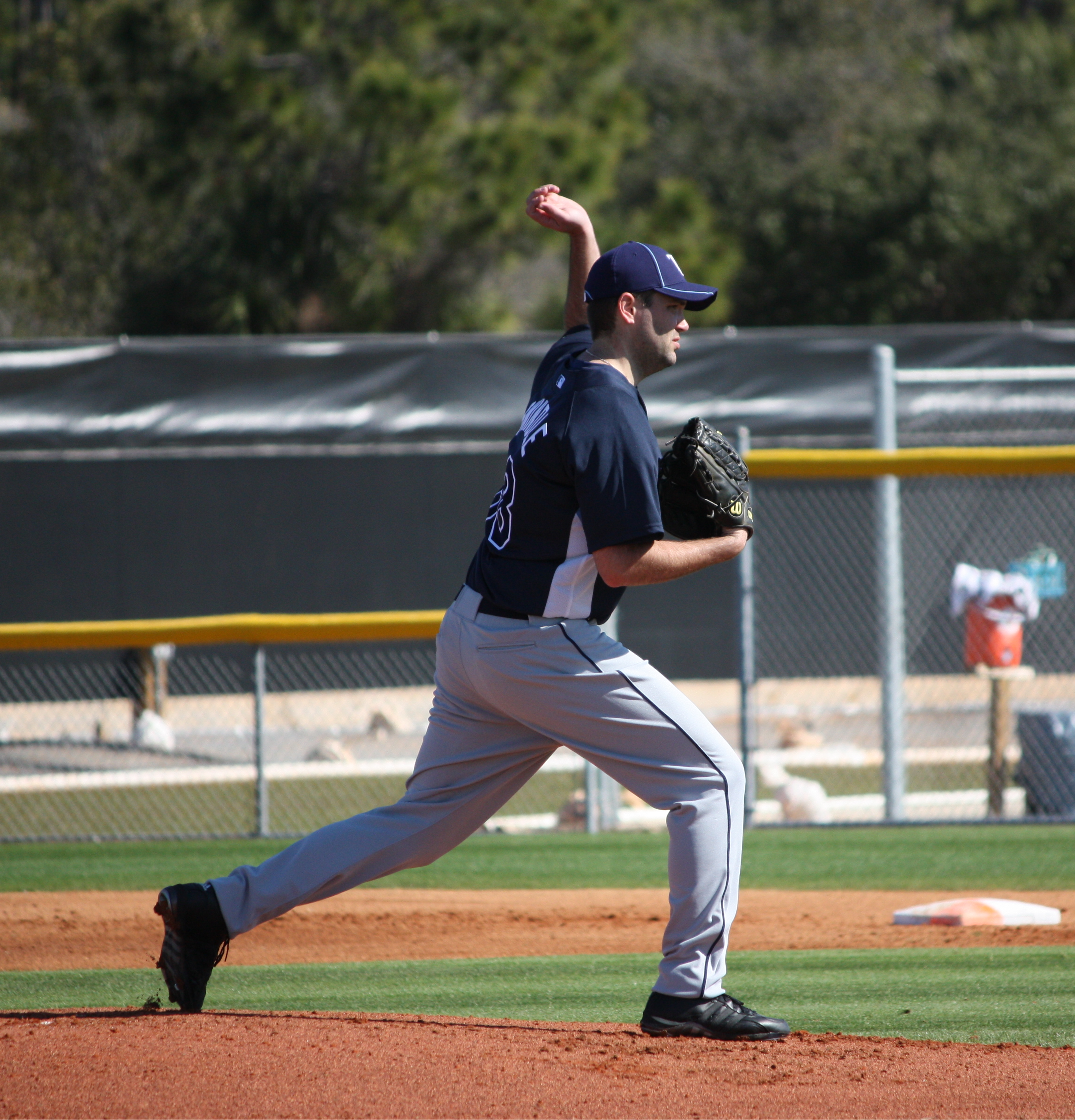 R. J. Swindle of the Tampa Bay Rays doing first base drills during spring training workouts at Charlotte Sports Park in Port Charlotte on February 21, 2010.